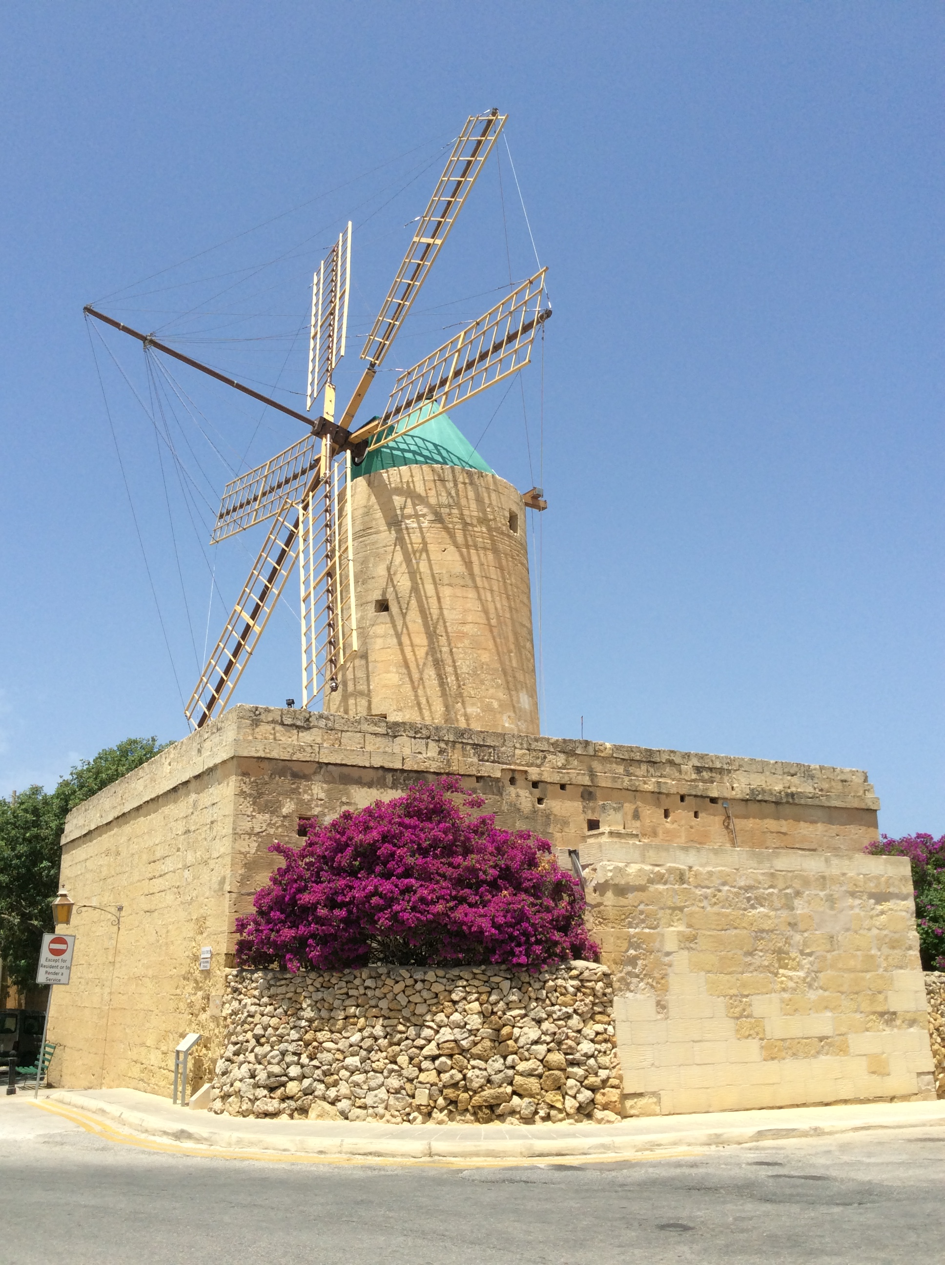 Exterior of Ta' Kola Windmill